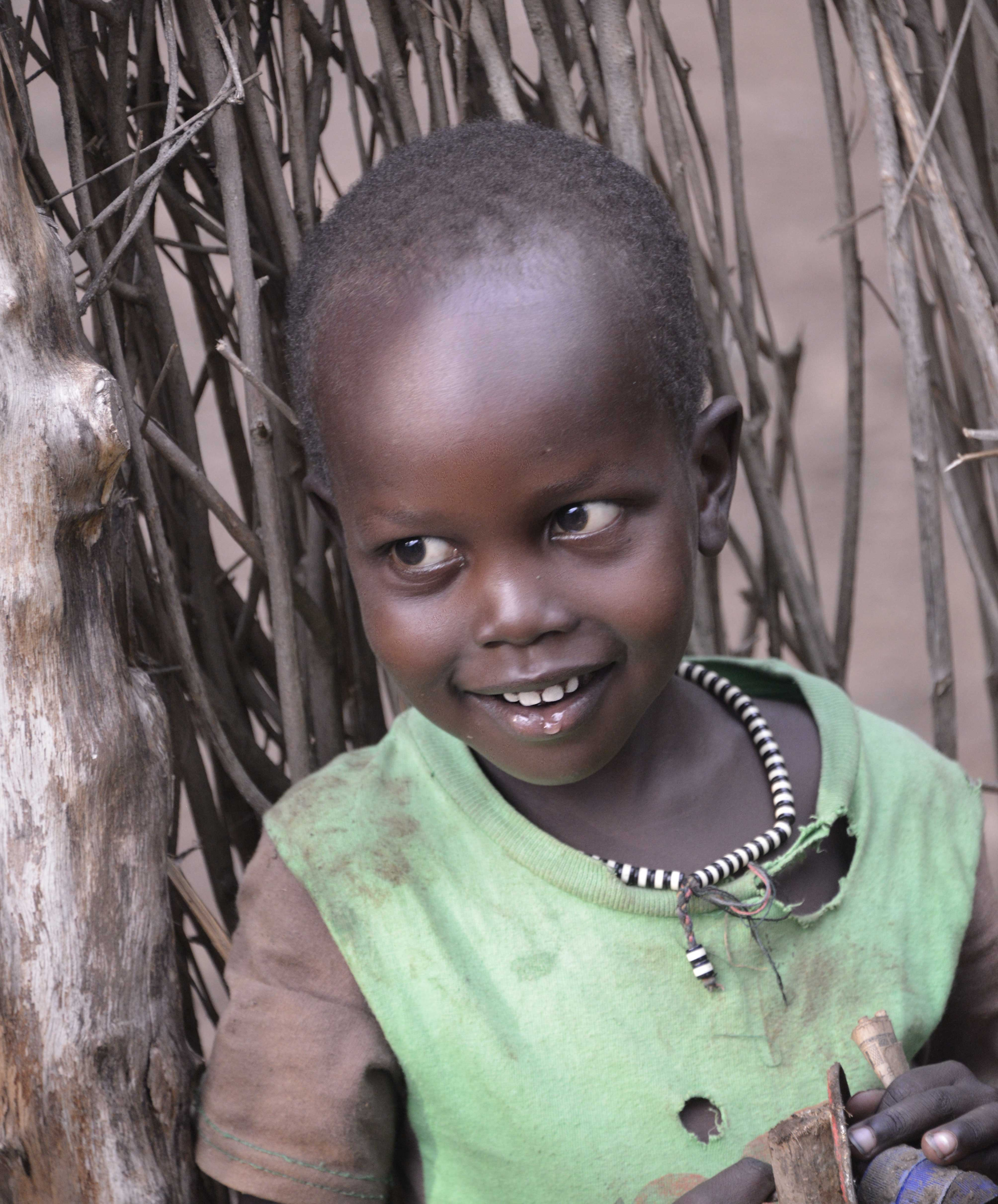 Anuak Tribe, Ethiopia